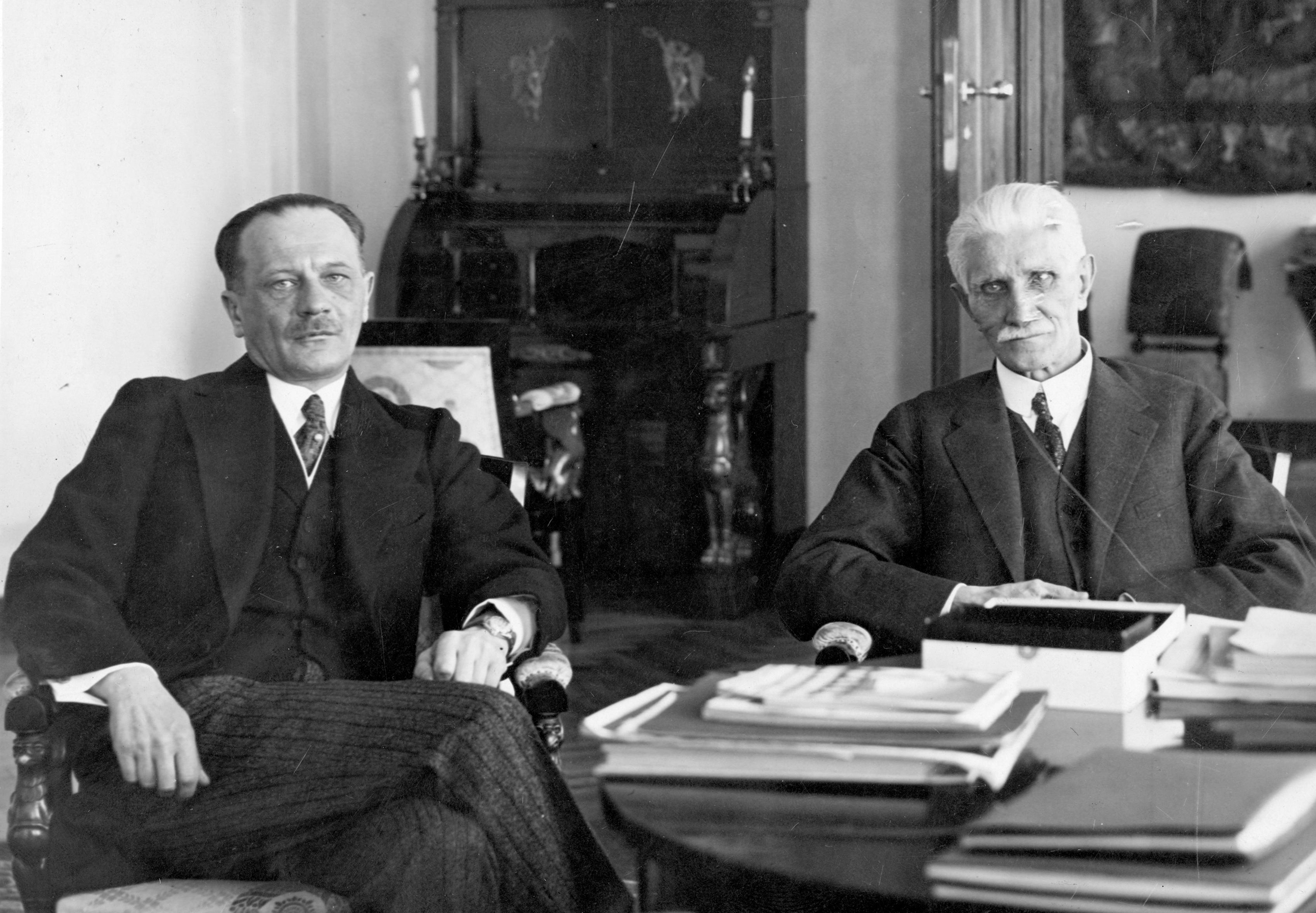 Polish Sejm's speaker Ignacy Daszyński (right) and prime minister Kazimierz Świtalski.